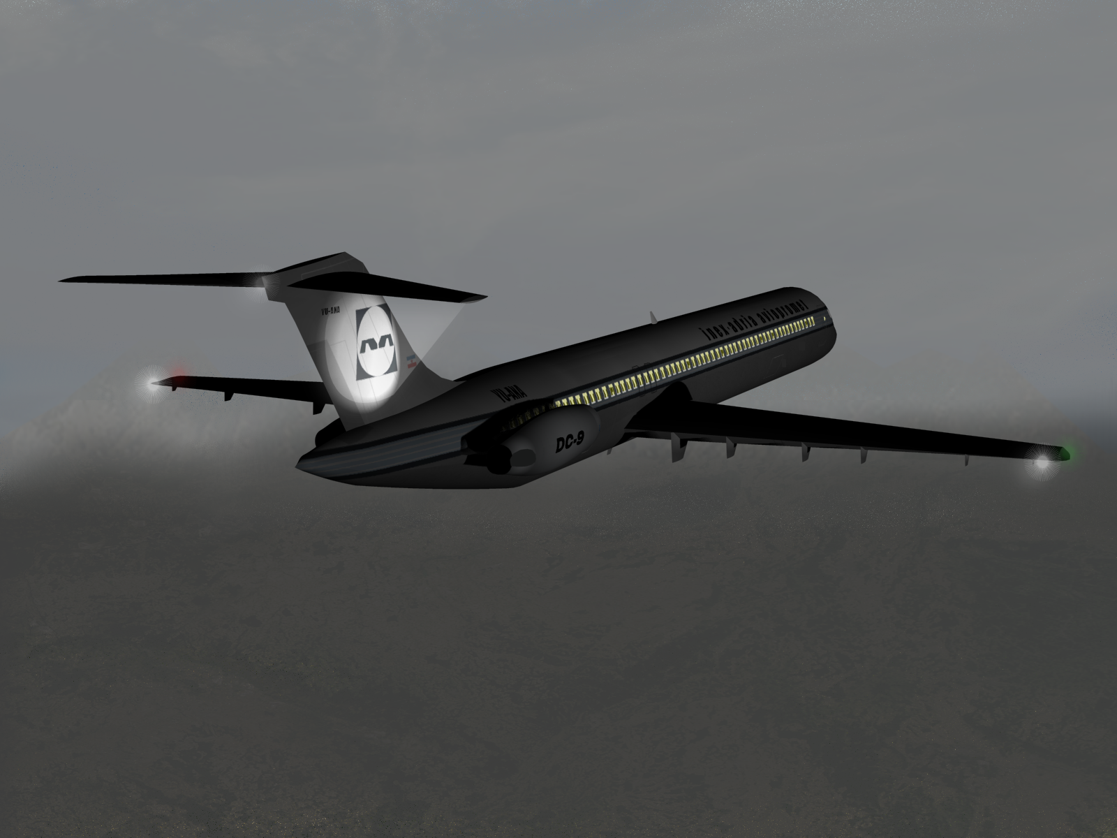 Inex-Adria Aviopromet Flight 1308 was a DC-9-81 which crashed into the side of a mountain on Corsica, in 1981.